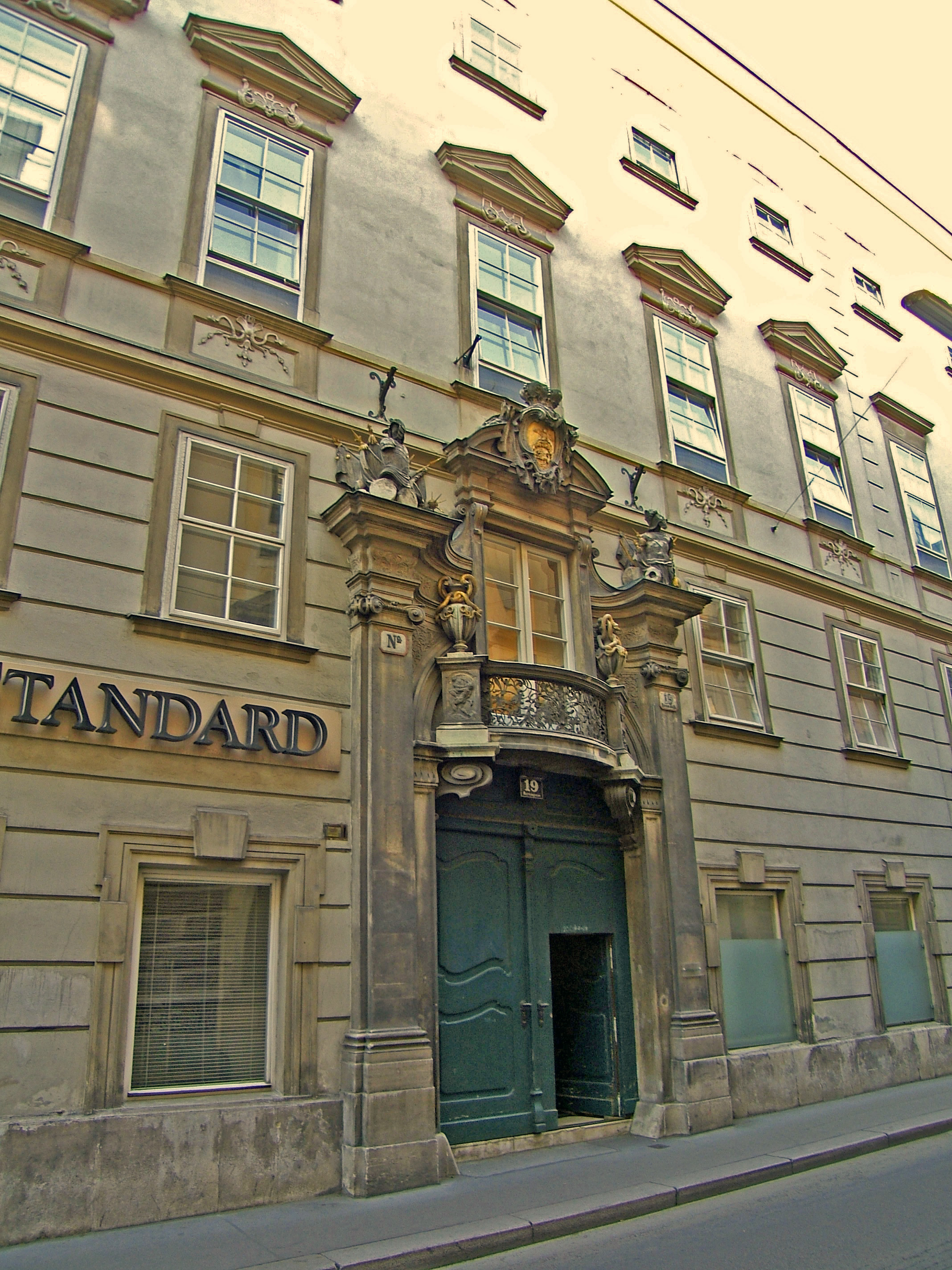 Batthyány-Strattmann Palais in Vienna, 1st district, Herrengasse 19